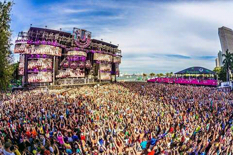 Ultra